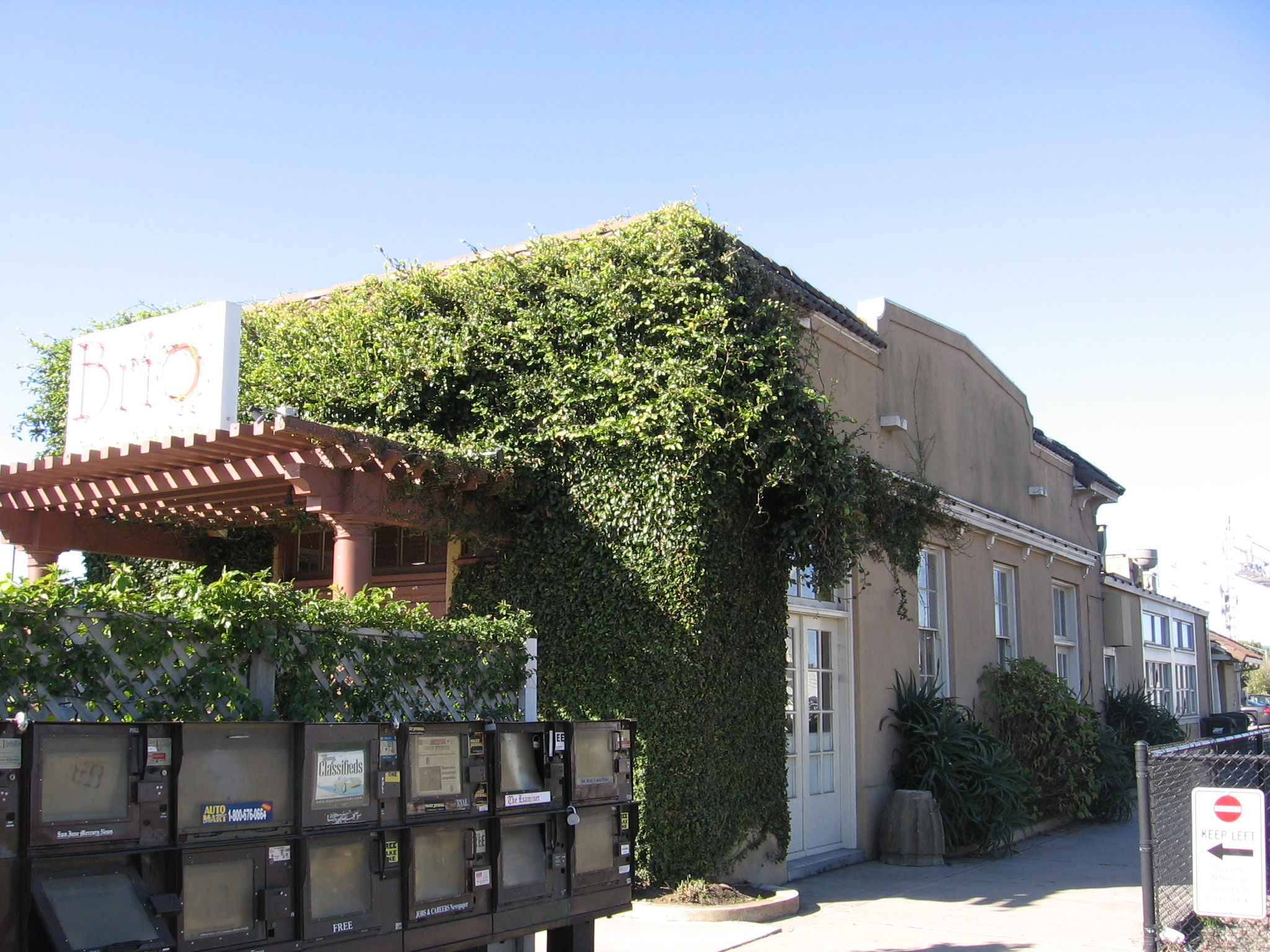 The Broadway (Caltrain station) in Burlingame, California, USA.